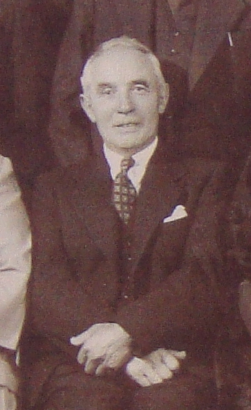 Christchurch City Council in 1950; photo taken at Christchurch City Council archives.